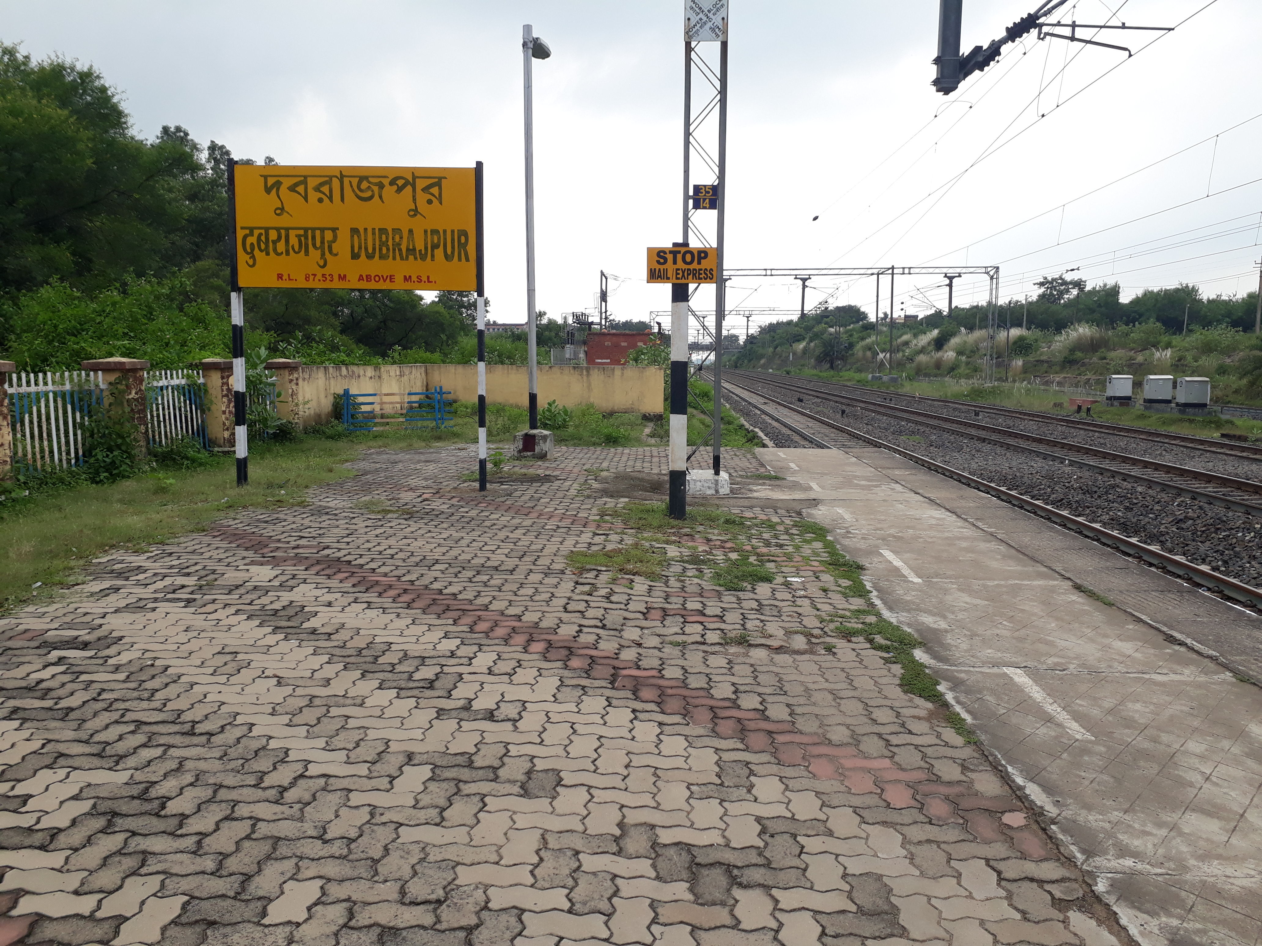 Dubrajpur Railway Station, Andal Sainthia line. Birbhum District